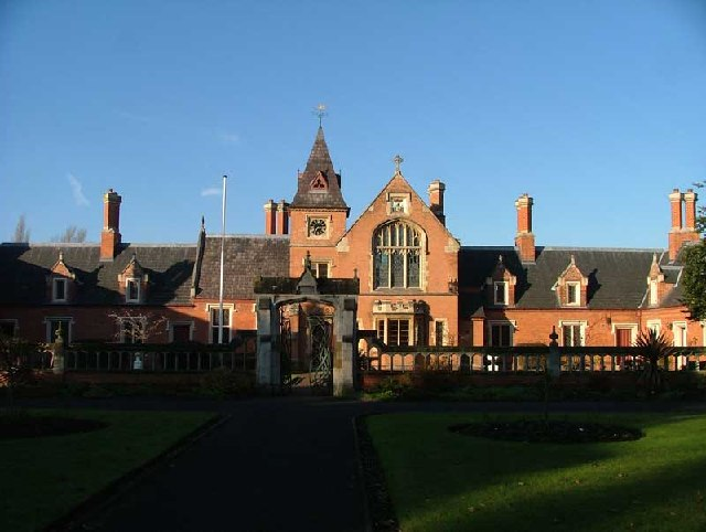 Trinity Hospital Retford. This was originally an almshouse